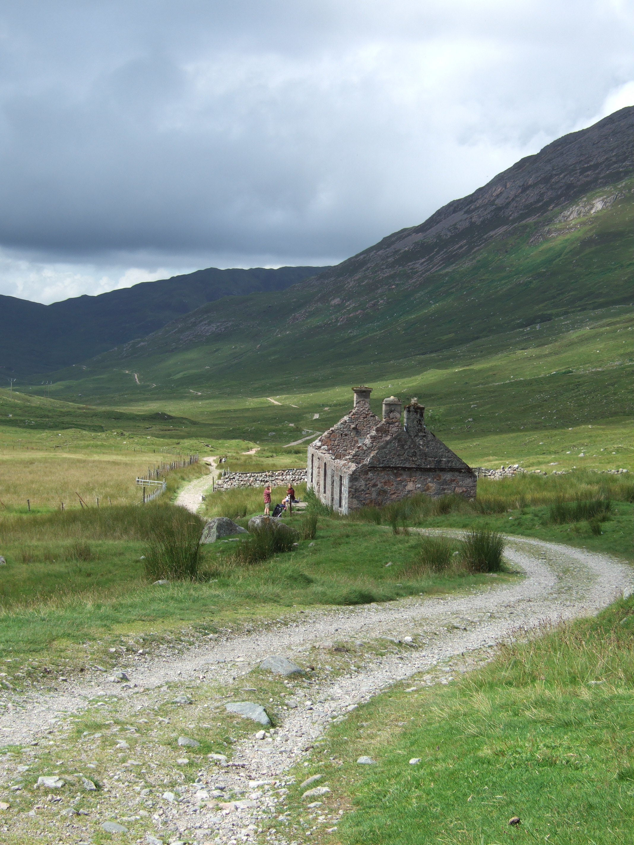 West Highland Way